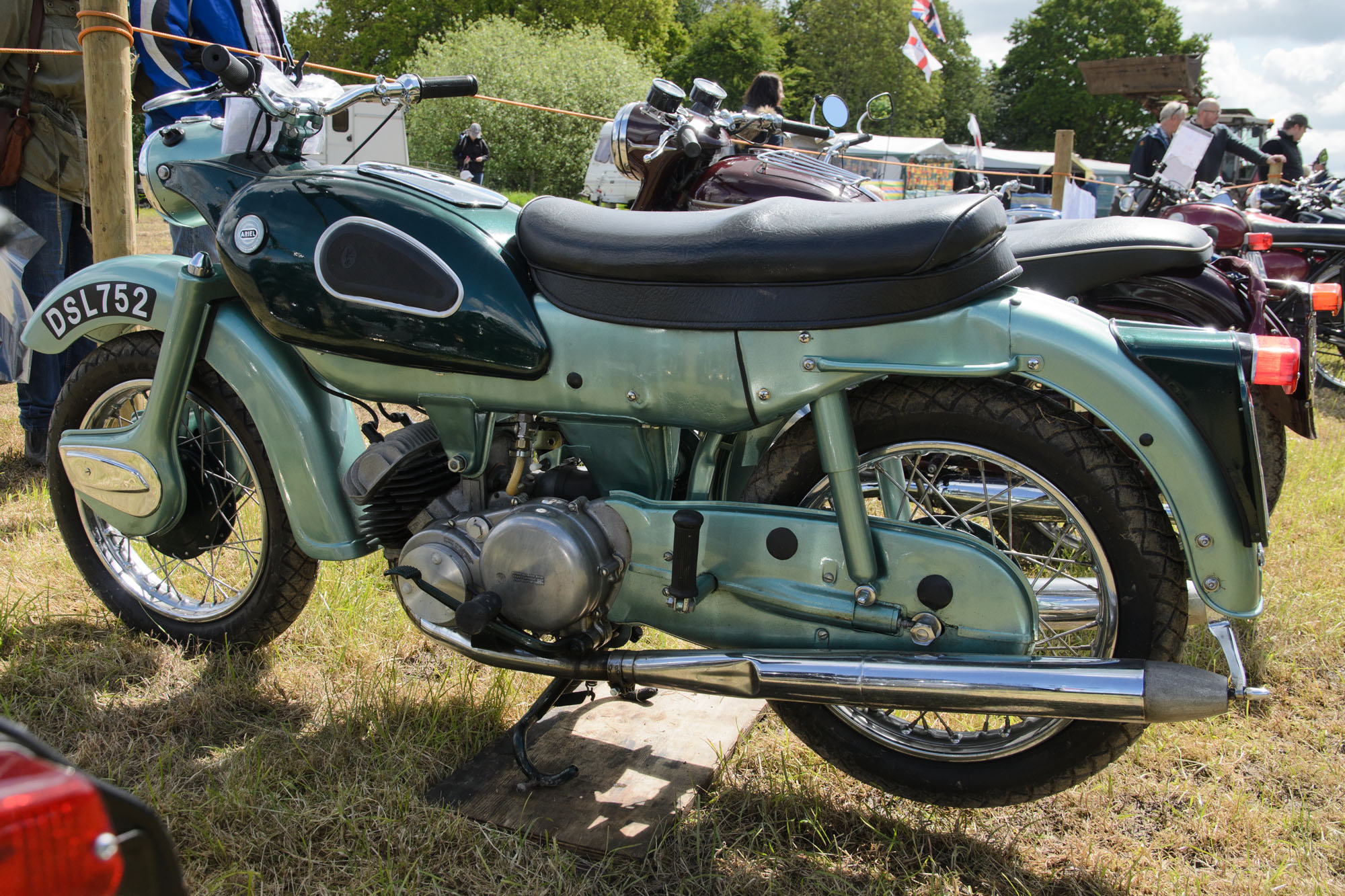 Heskin Hall Steam Fair 30/05/2015